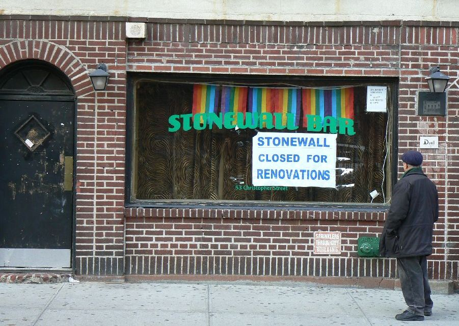 Stonewall Bar